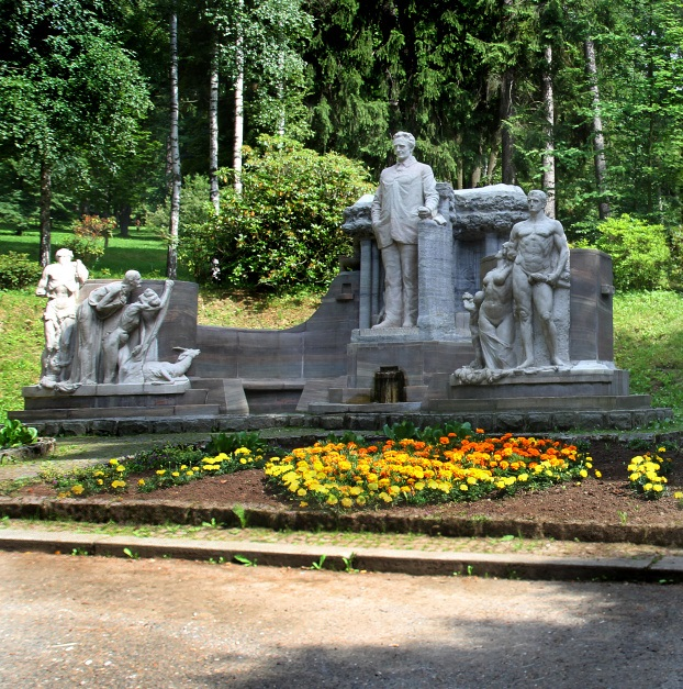 Statue of Priessnitz